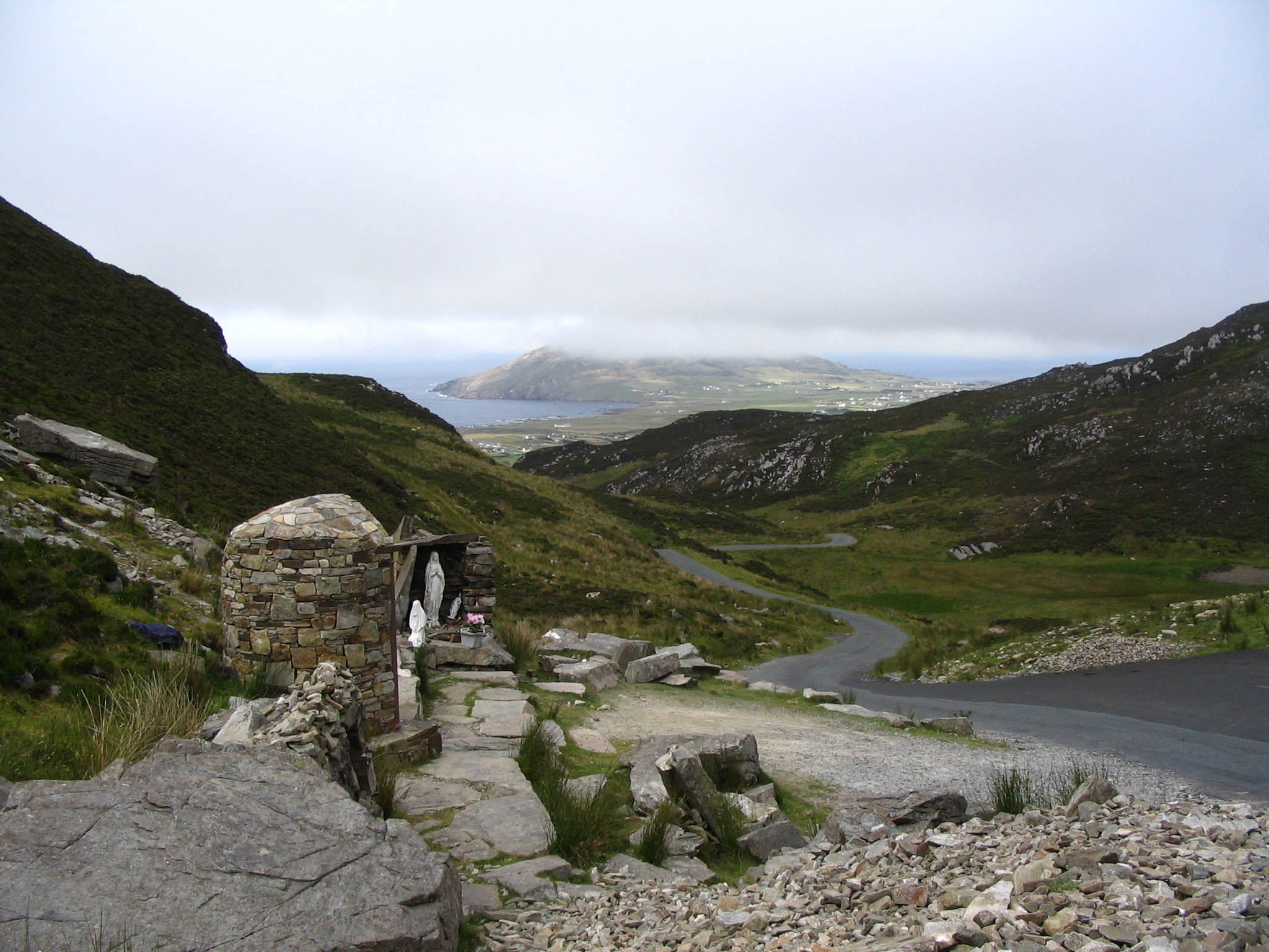 Holly well - Gap of Mamore - Inishowen - Ireland